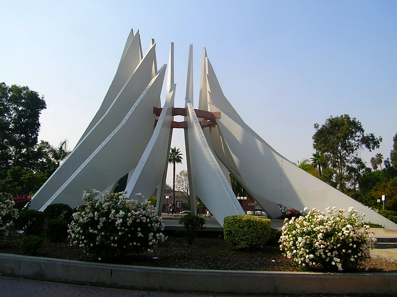 The Martin Luther King Monument in the City of Compton. The monum October 2007 Photo taken by Eric Polk for Compton.